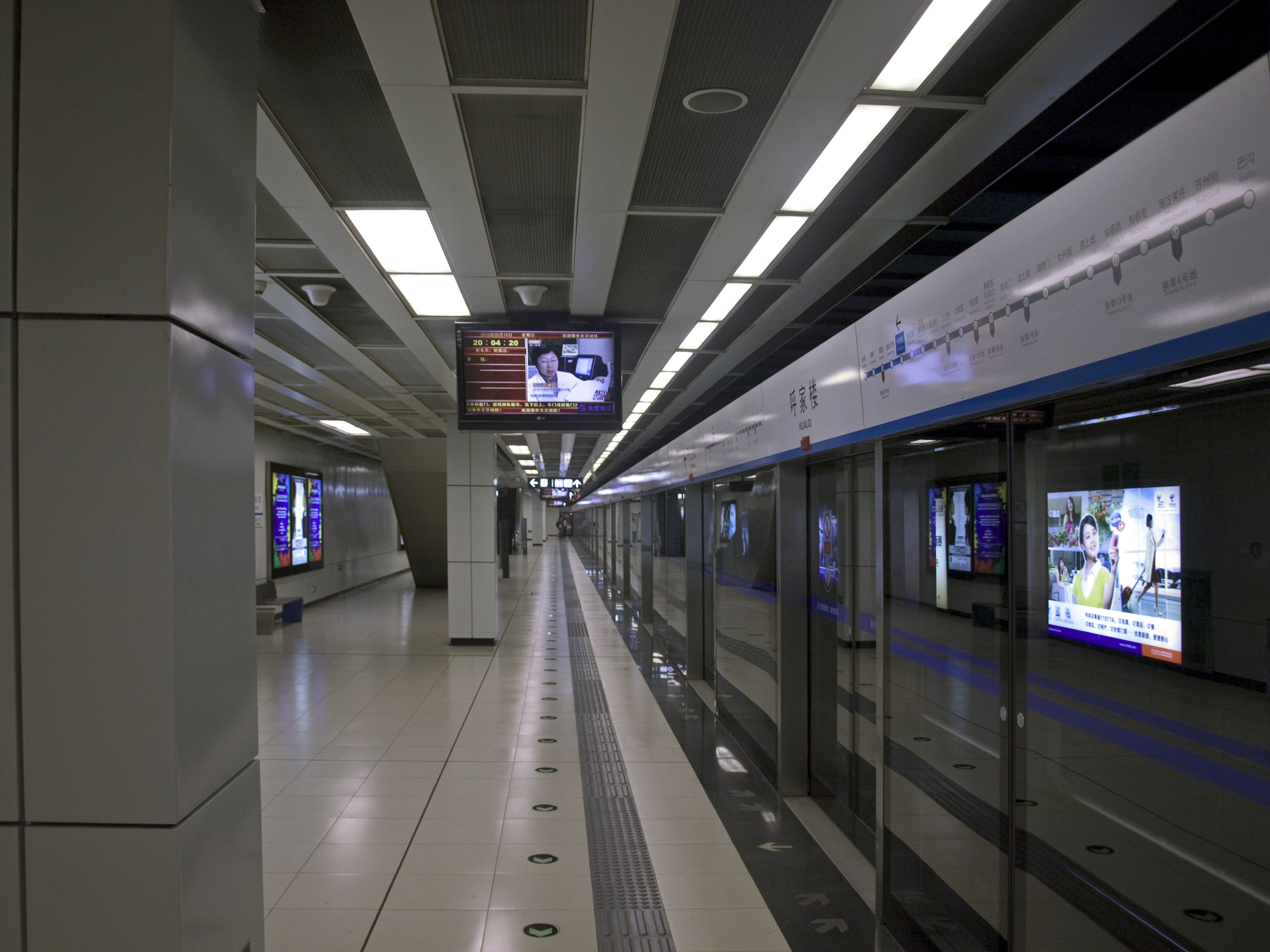 Hujialou station, Beijing Subway